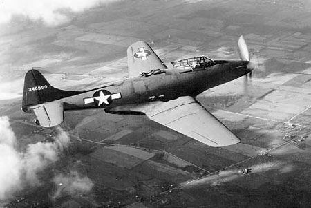 Fisher XP-75-GM In flight (SN 43-46950, 1st aircraft built)